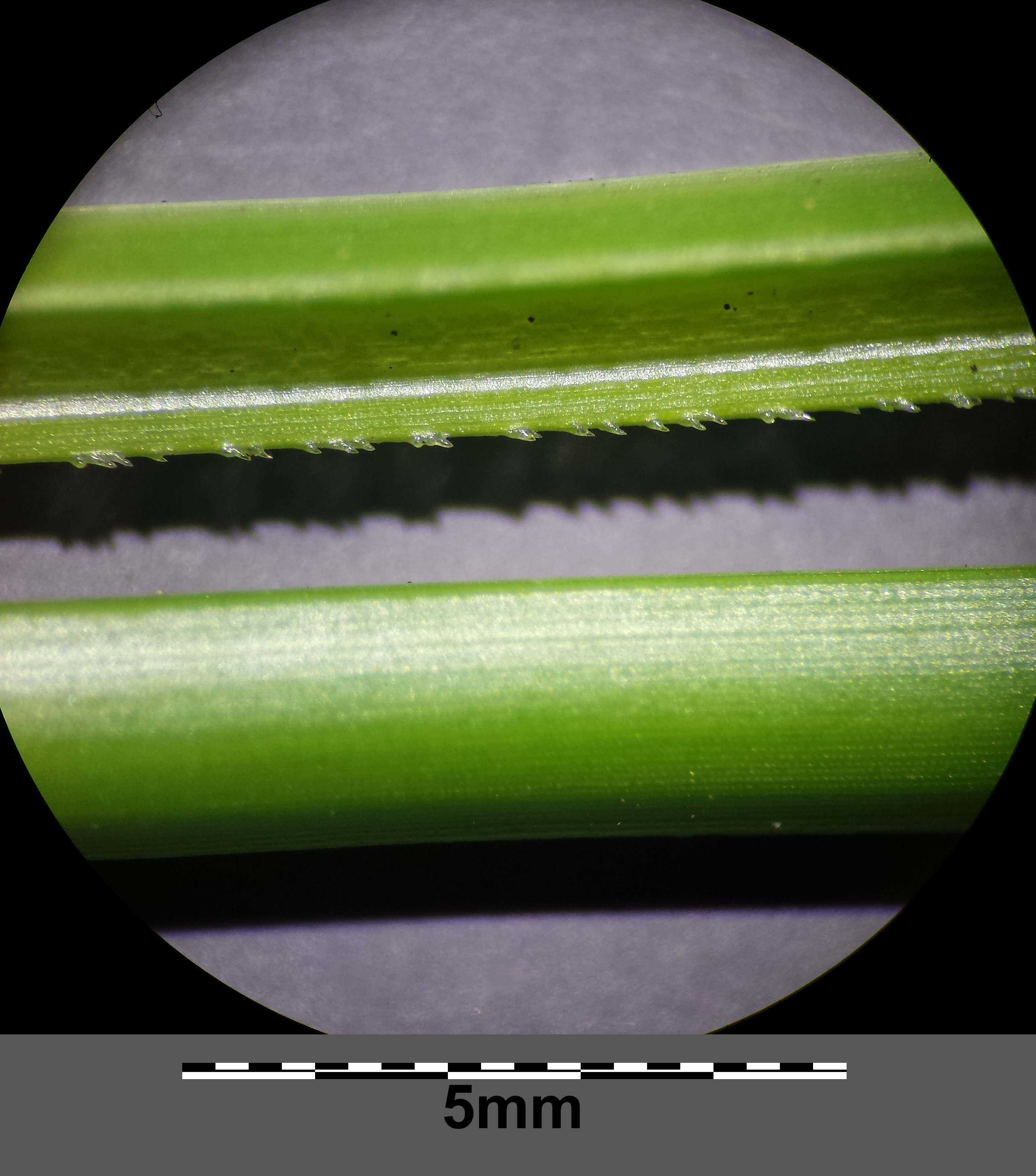 Stem (at the bottom) and antrorsely aculeolate leaf (at the top) Taxonym: Scirpoides holoschoenus ss Fischer et al. EfÖLS 2008 ISBN 978-3-85474-187-9 Location: ArbeiterInnenstrand at Alte Donau (former Arbeiterstandbad), Vienna-Donaustadt - ca. 160 m a.s.l. Habitat: shore